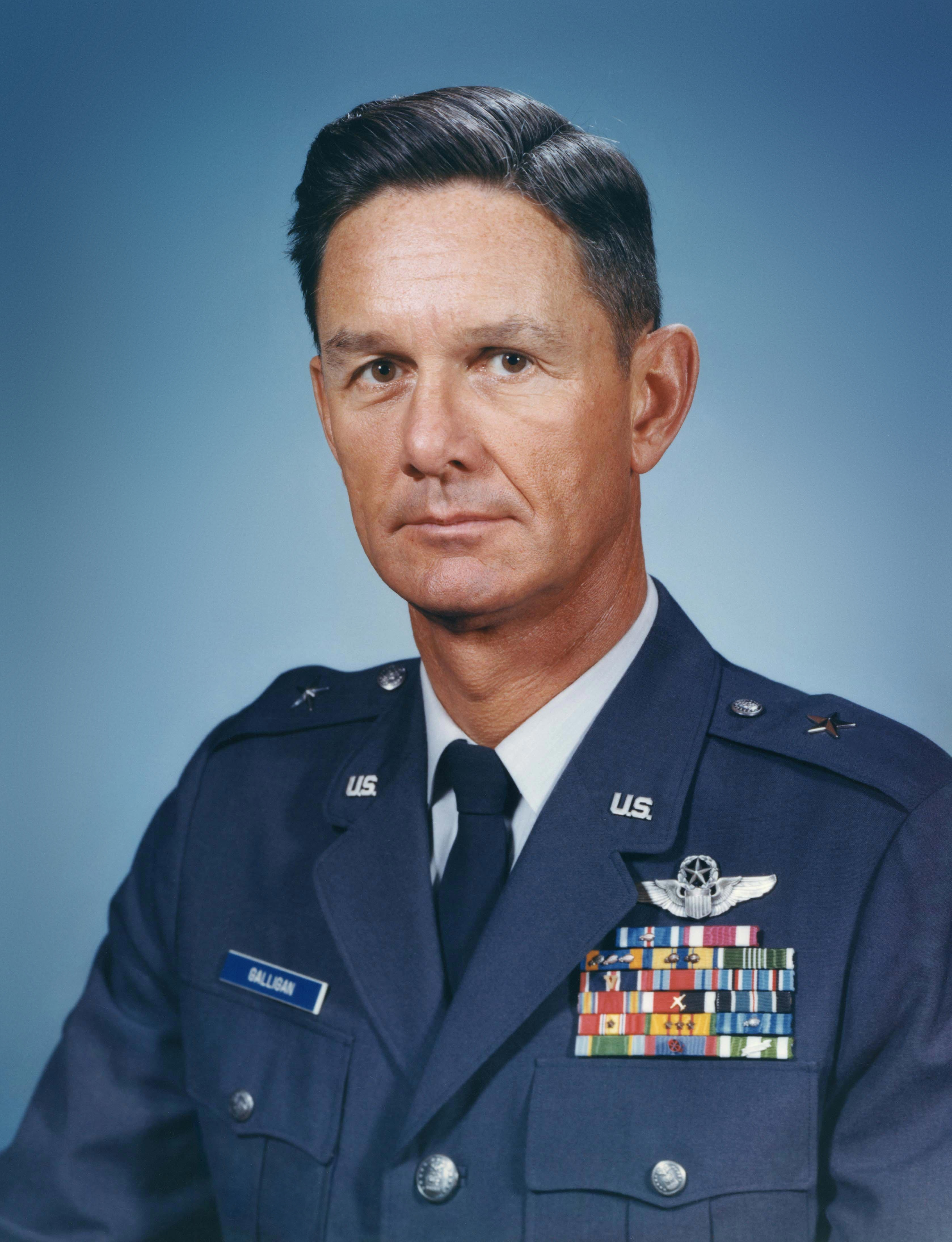 Walter T. Galligan, Commandant, United States Air Force Academy (pictured as Brigadier General)